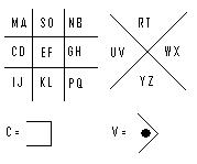 Masonic cipher using a simple code word (e.g. MASON) to provide some protection from simple forced cracking of the Pigpen cipher pictogram set. I created this image. Peter Ellis 01:52, 29 December 2006 (UTC)